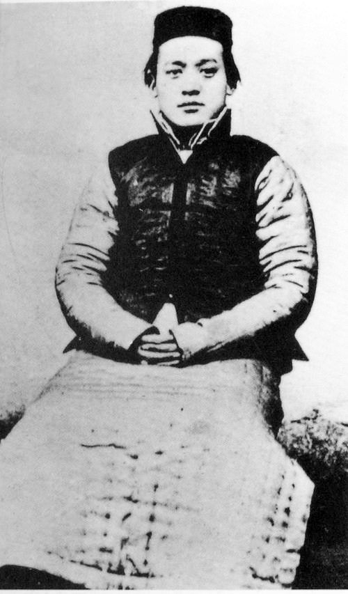 Peng Chufan（1884-1911),a Chinese revolutionary